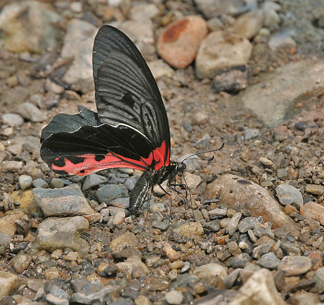 Redbreast Princeps alcmenor at Jayanti in Buxa Tiger Reserve in Jalpaiguri district of West Bengal, India.